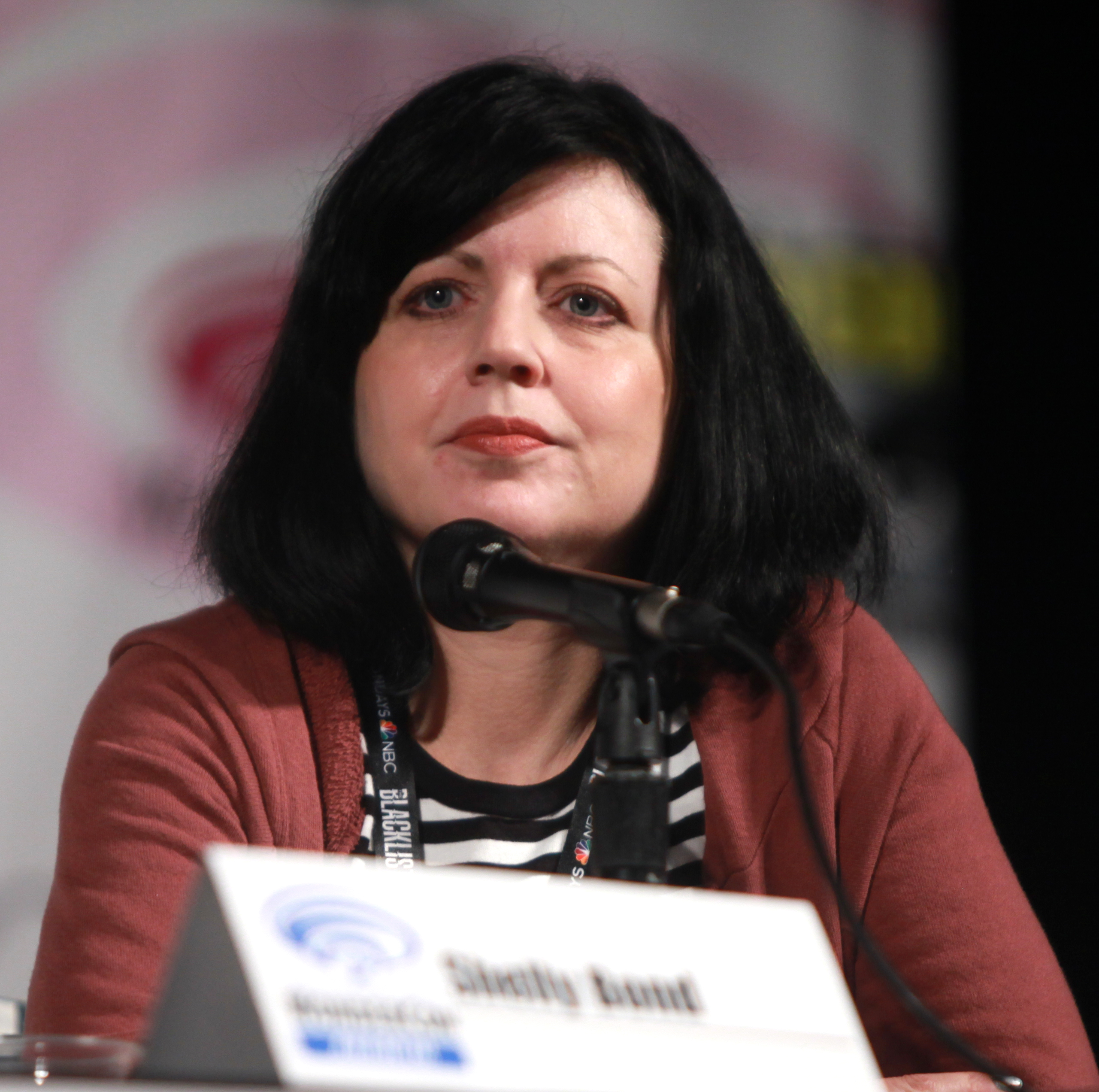 Shelly Bond speaking at the 2014 WonderCon, for "DC Entertainment: All Access", at the Anaheim Convention Center in Anaheim, California.